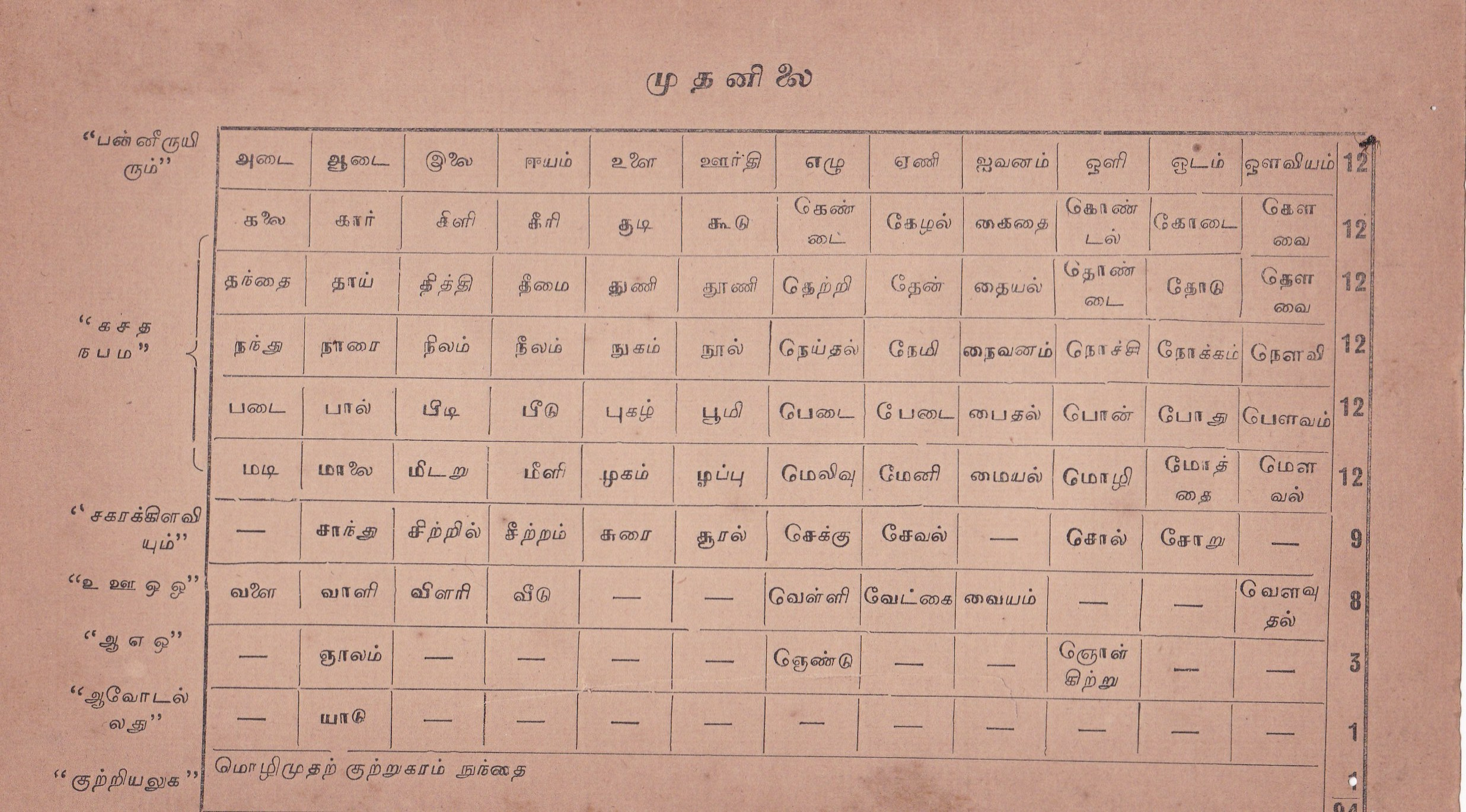 தொல்காப்பியம் காட்டும் தமிழ் மொழிமுதல் எழுத்துக்கள்